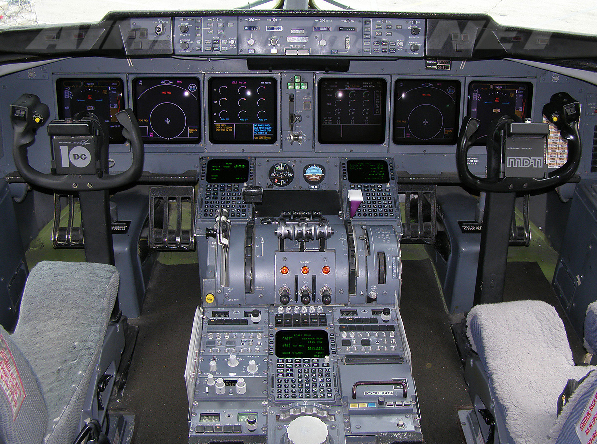 VP-BDP / 520 (cn 48502/520) MD-11 logo on first officer position. Fine DC-10 logo on captain position.